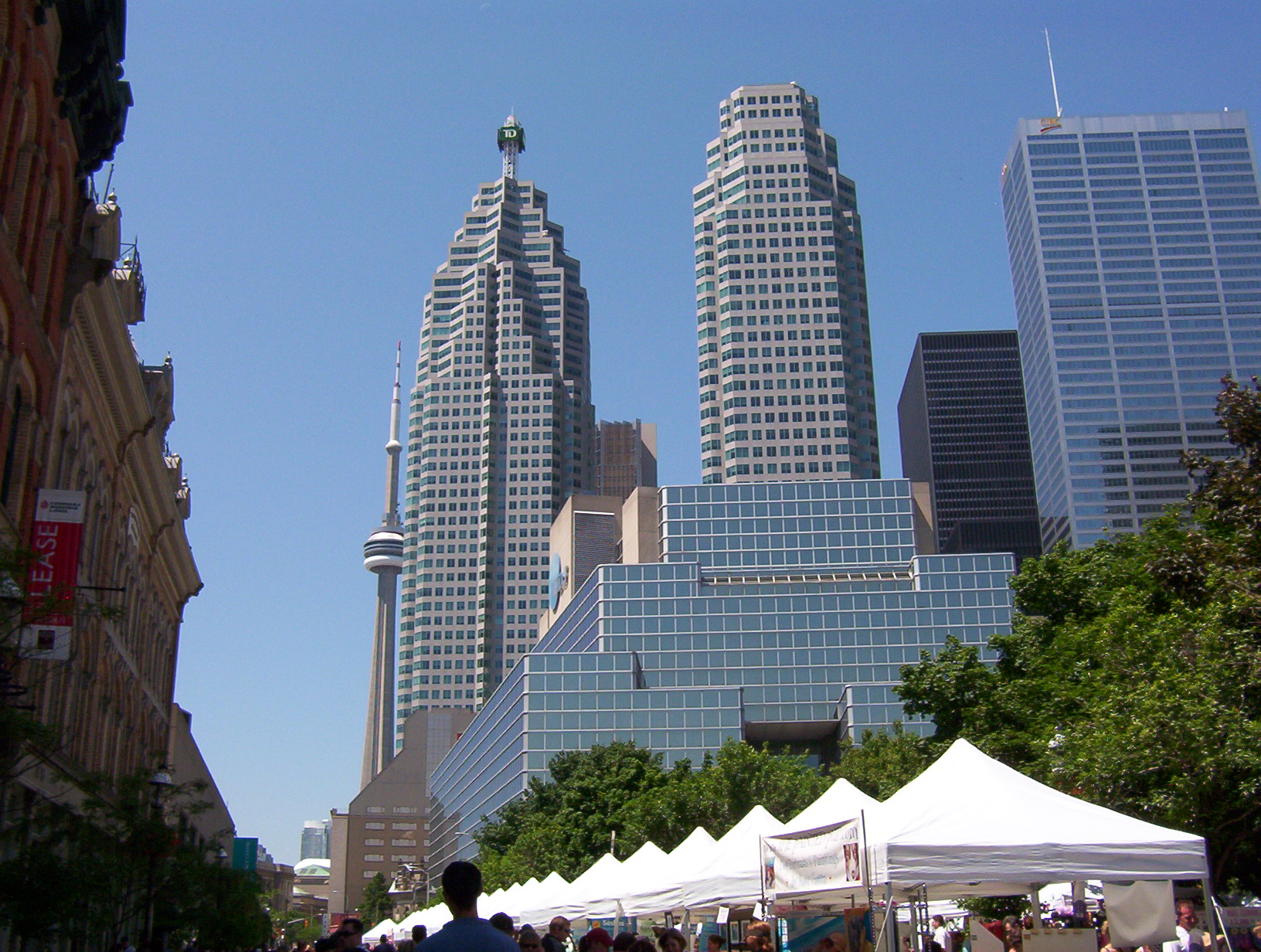 I took this image on Sunday, June 10, 2007 at the "Woofstock" dog festival in Toronto, Ontario, Canada. It is for use in the wikinews:en:"Woofstock" dog festival in Toronto article.